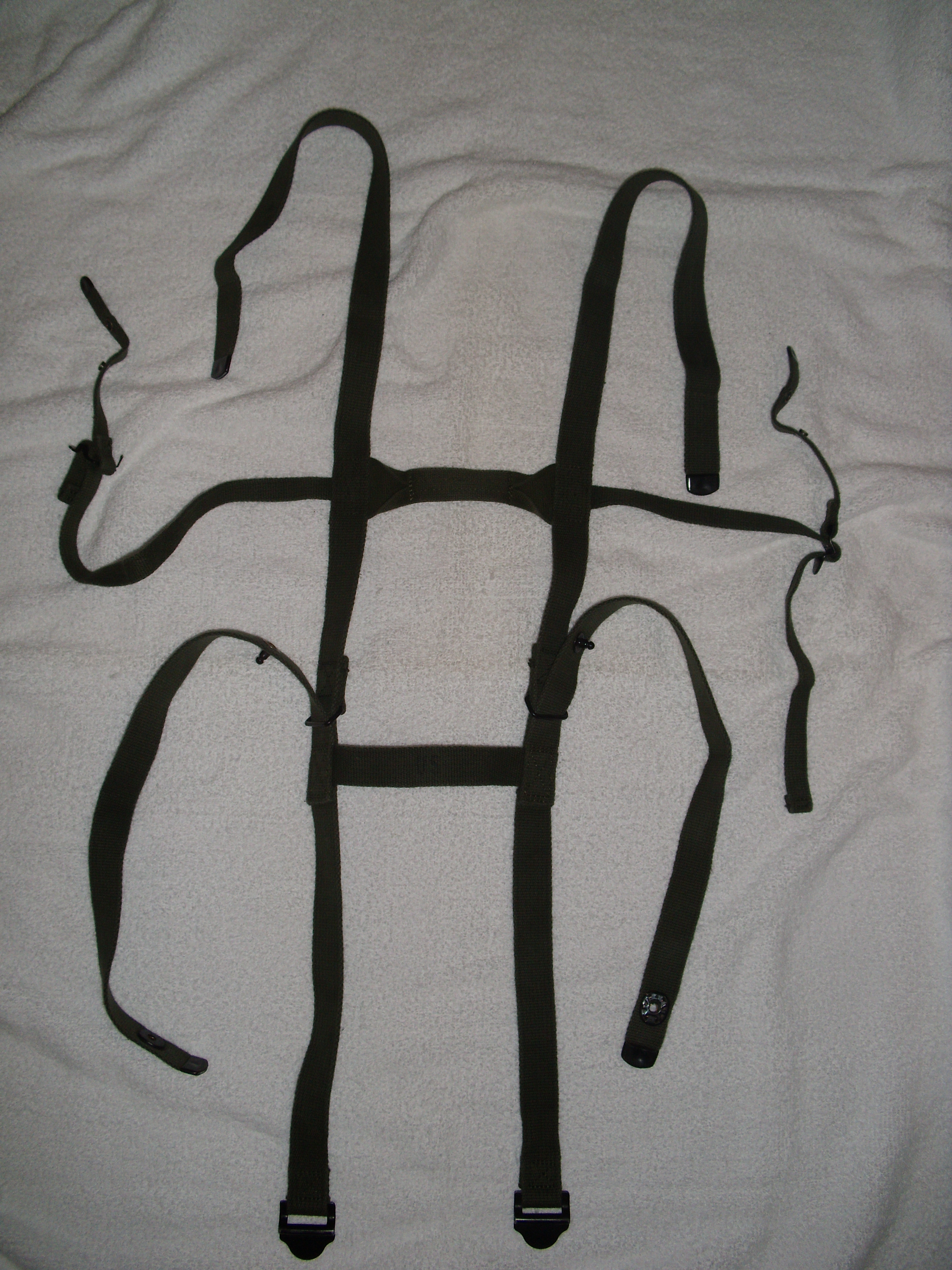 Carrier, sleeping bag M1956